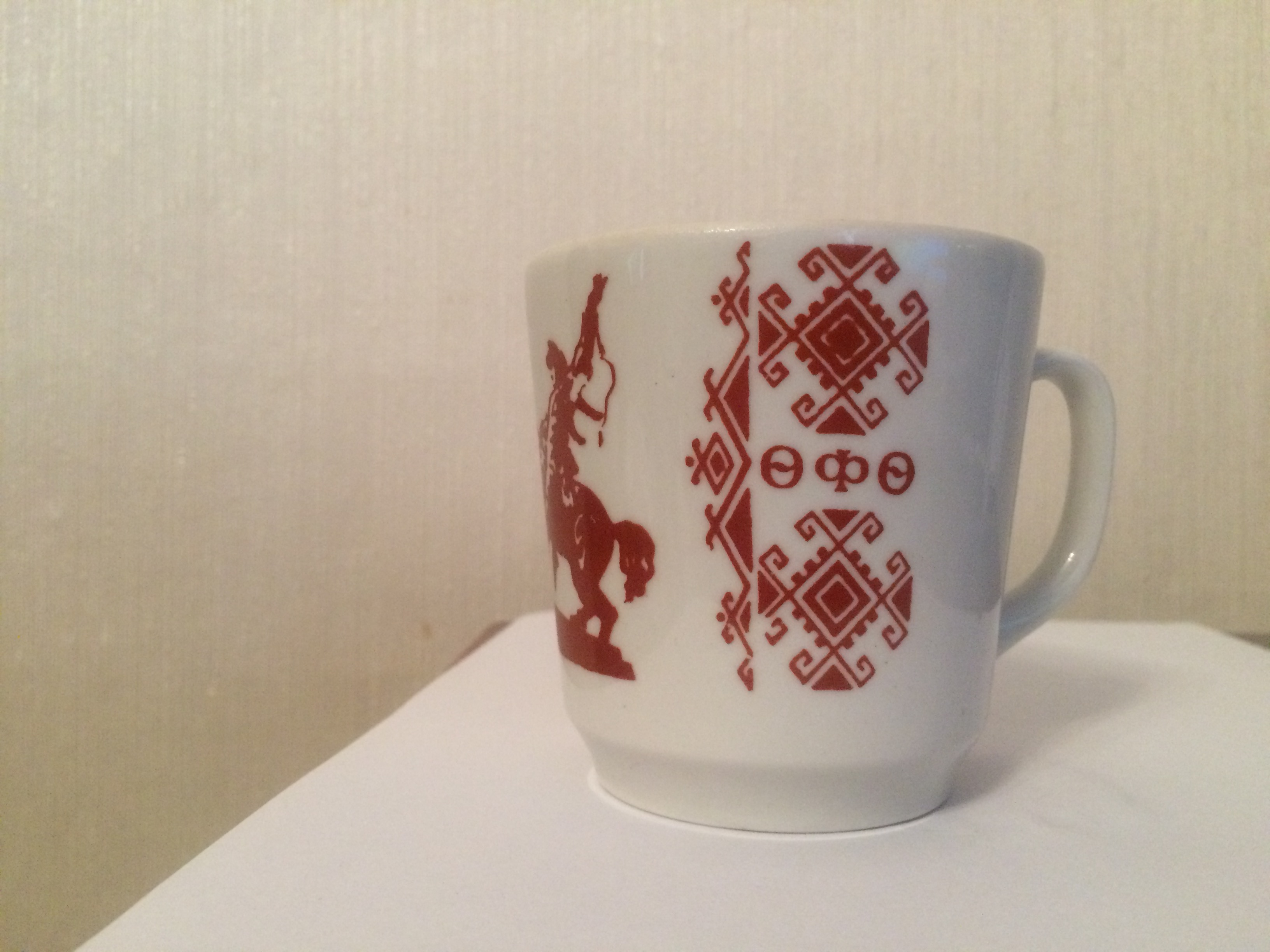 Башкирский орнамент в керамике